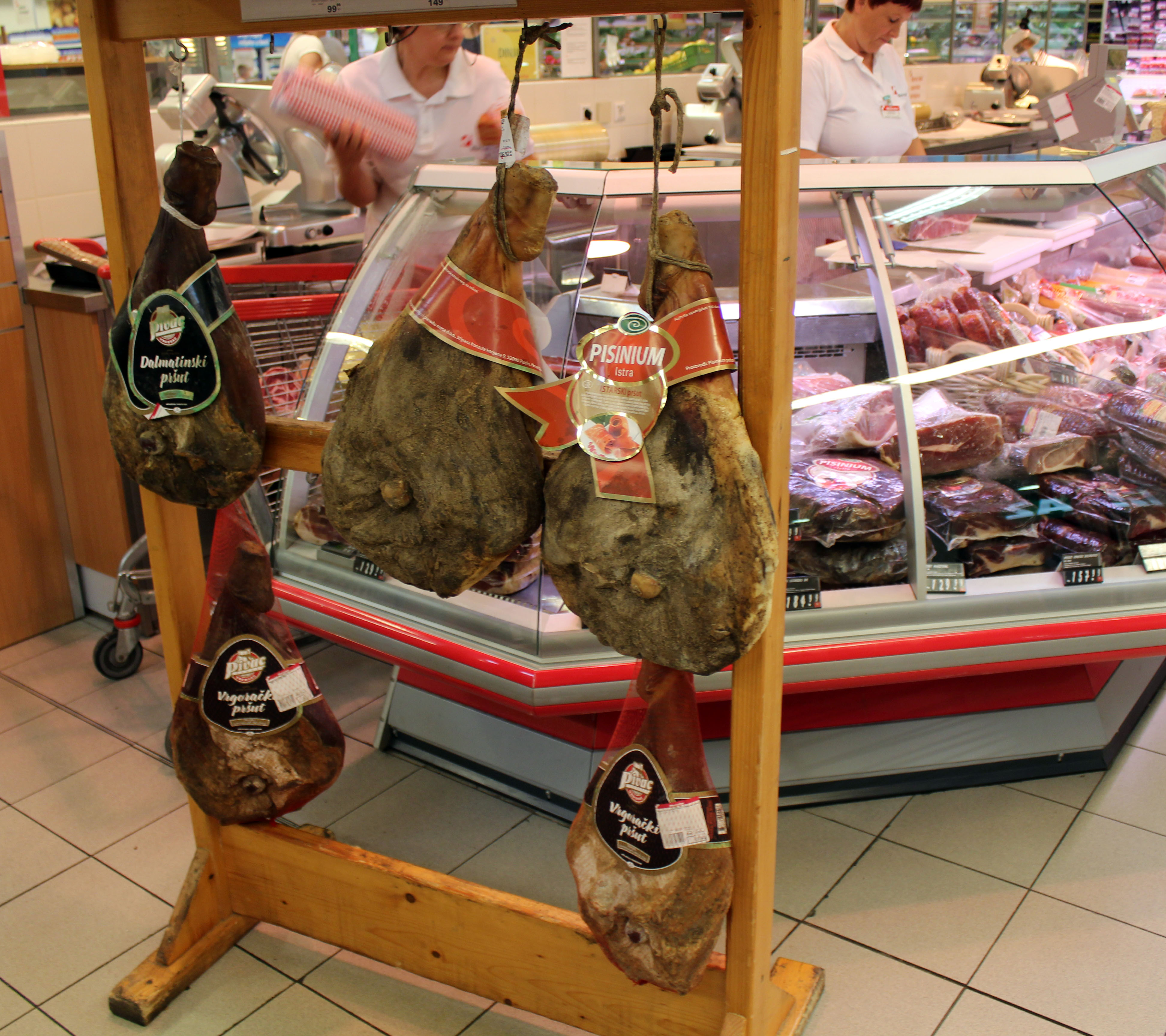 Croatian prosciutto (Pršut). (Pula, Istria, Croatia)